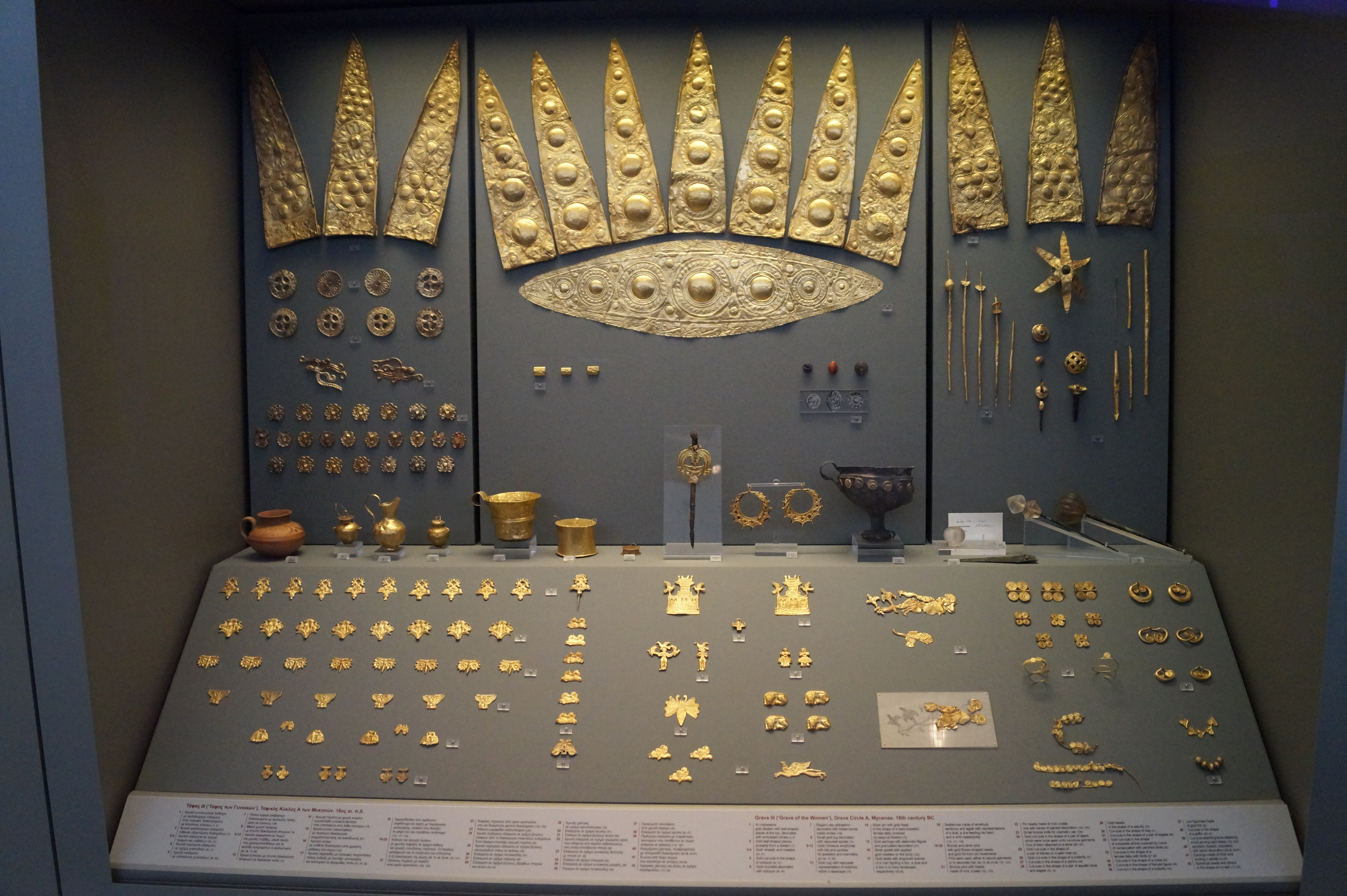 National Archaeological Museum of Athens: Gold objects from grave III of grave circle A at Mykenae.